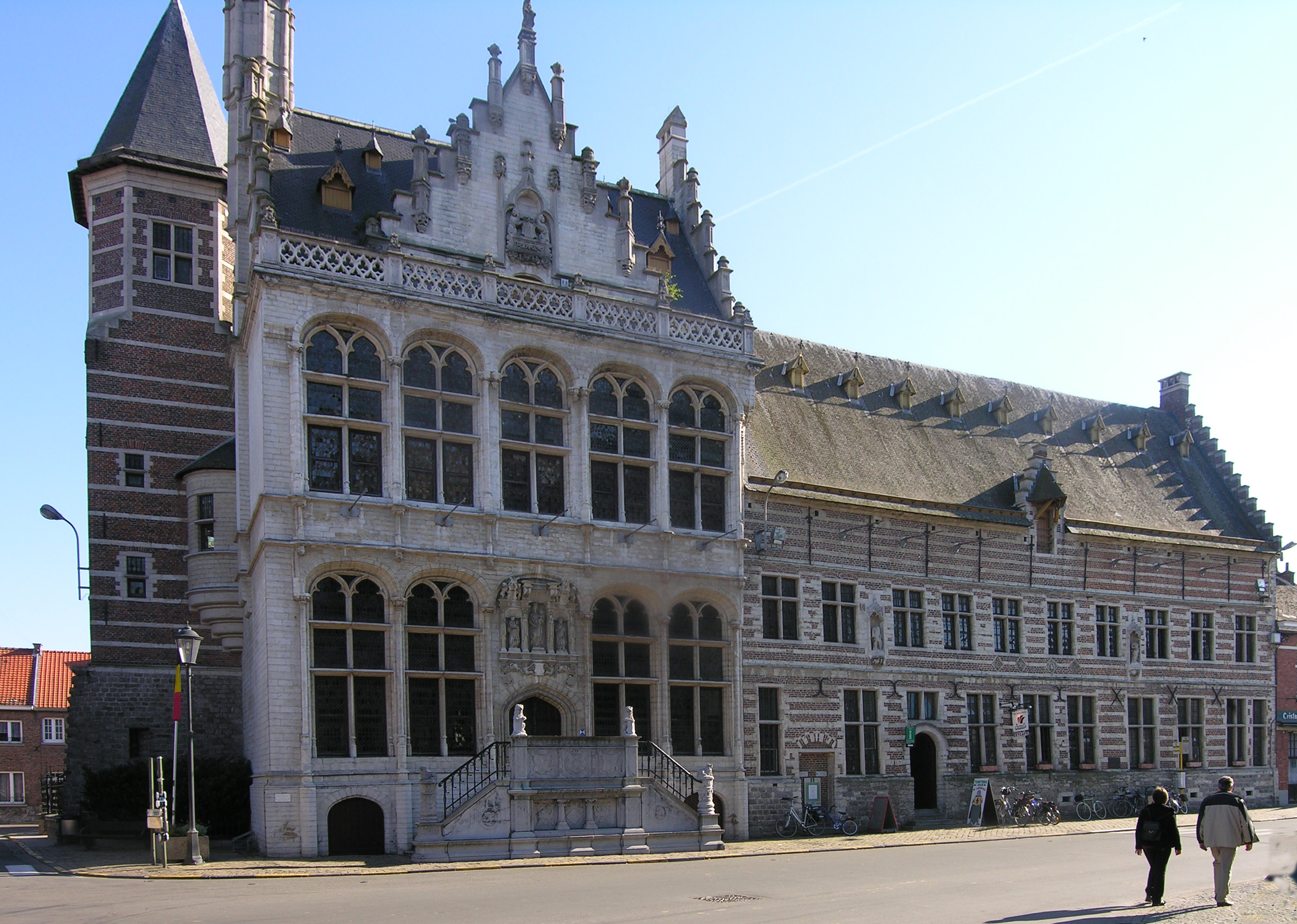 Zoutleeuw (Belgium): Town Hall